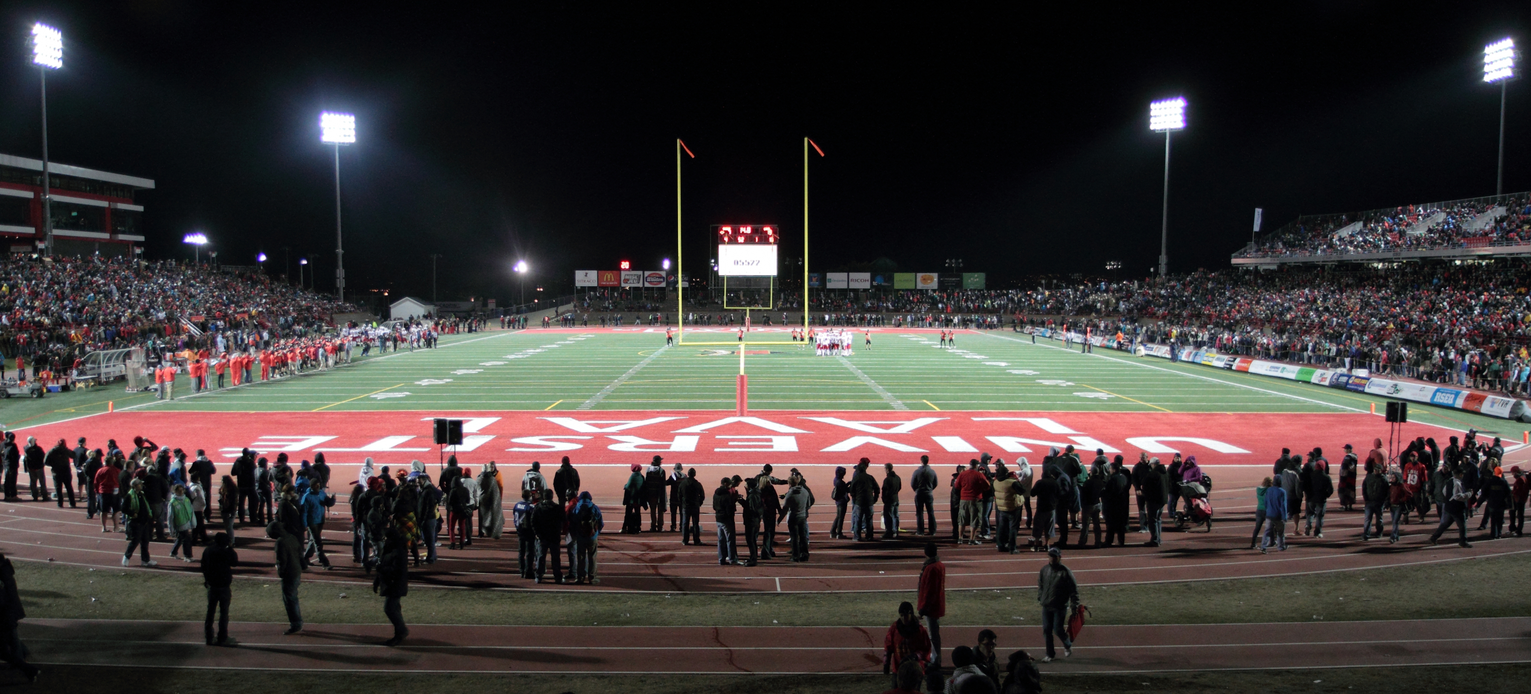 Football game opposing Laval Rouge et Or and Axemen at Laval